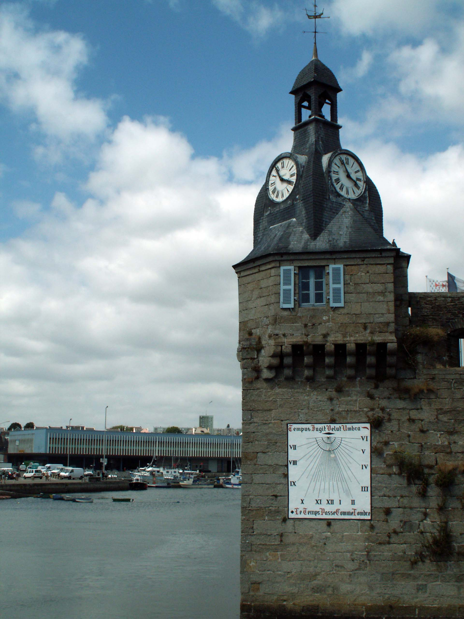 Clocktower of the Ville Close, Concarneau, Finistère, Brittany, France